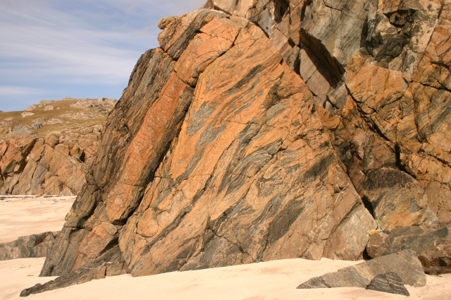 Lewisian Gneiss A weathered example of Europe's oldest rock